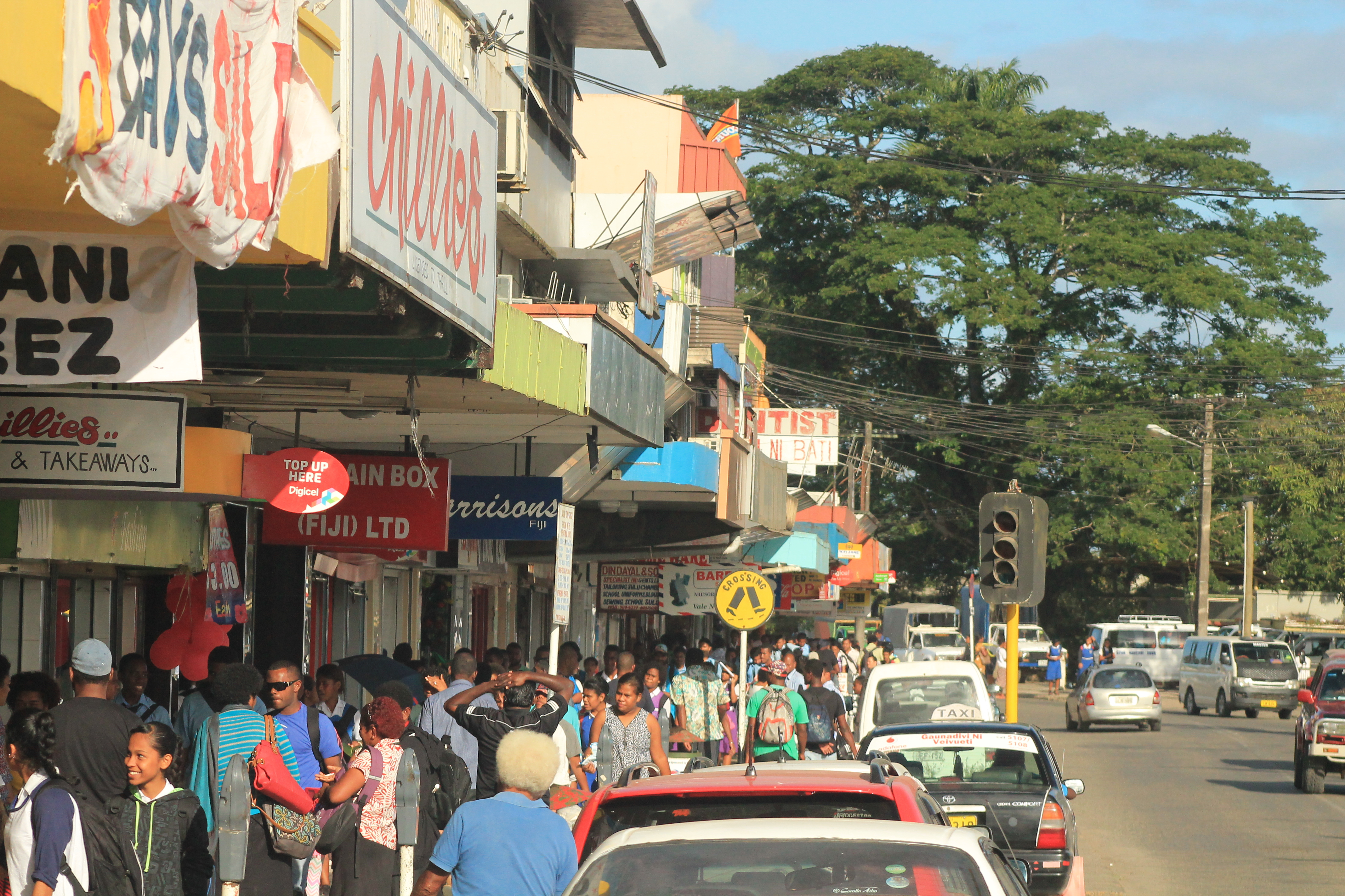 Nausori Town - Main street (Kings Road)